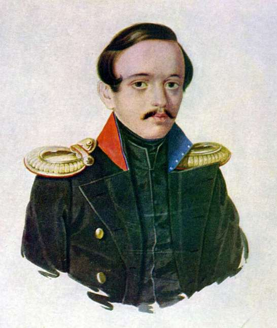 Russian poet Mikhail Yurievich Lermontov